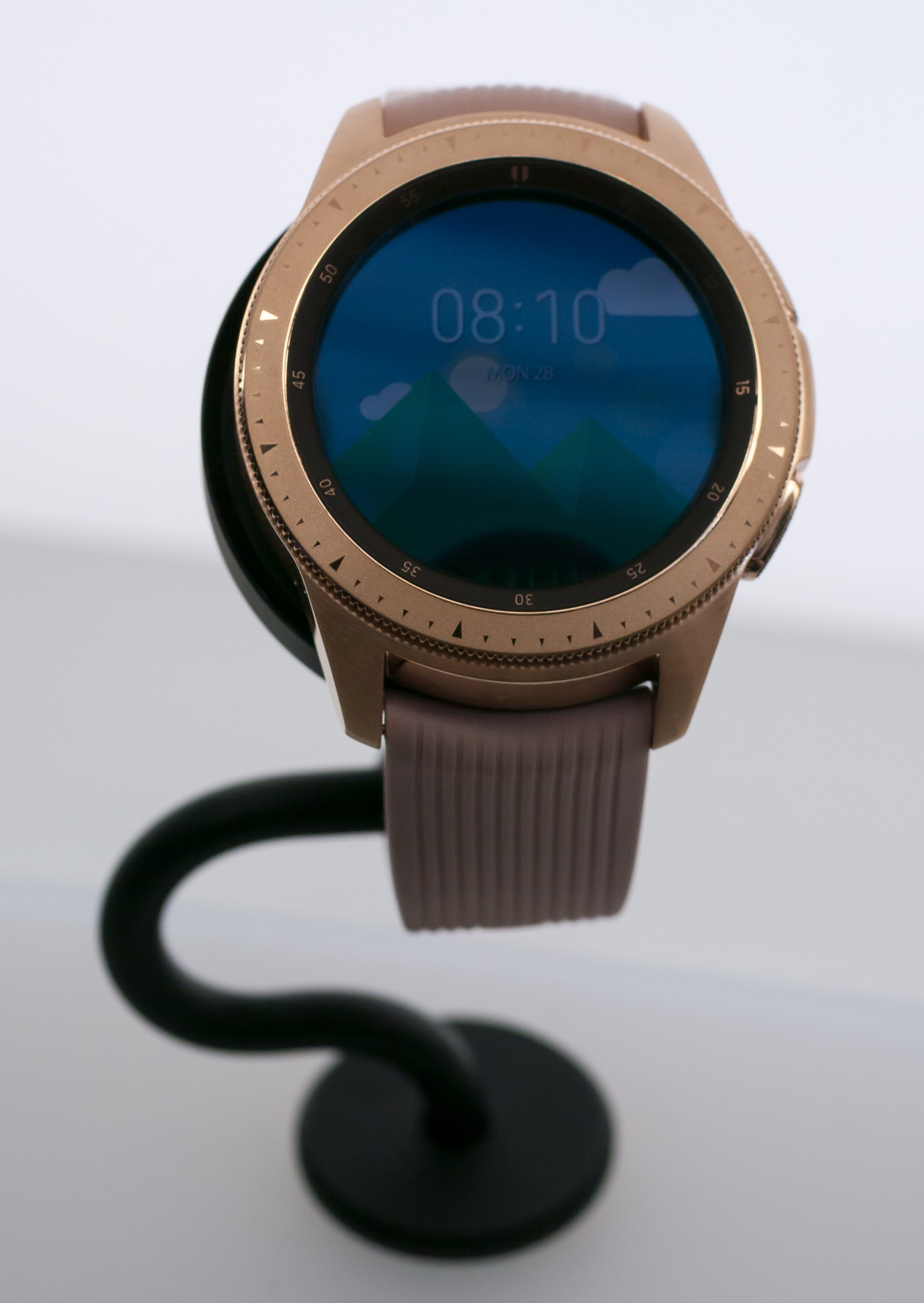 Samsung, Internationale Funkausstellung 2018, Berlin